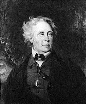 Portrait of Richard Mentor Johnson